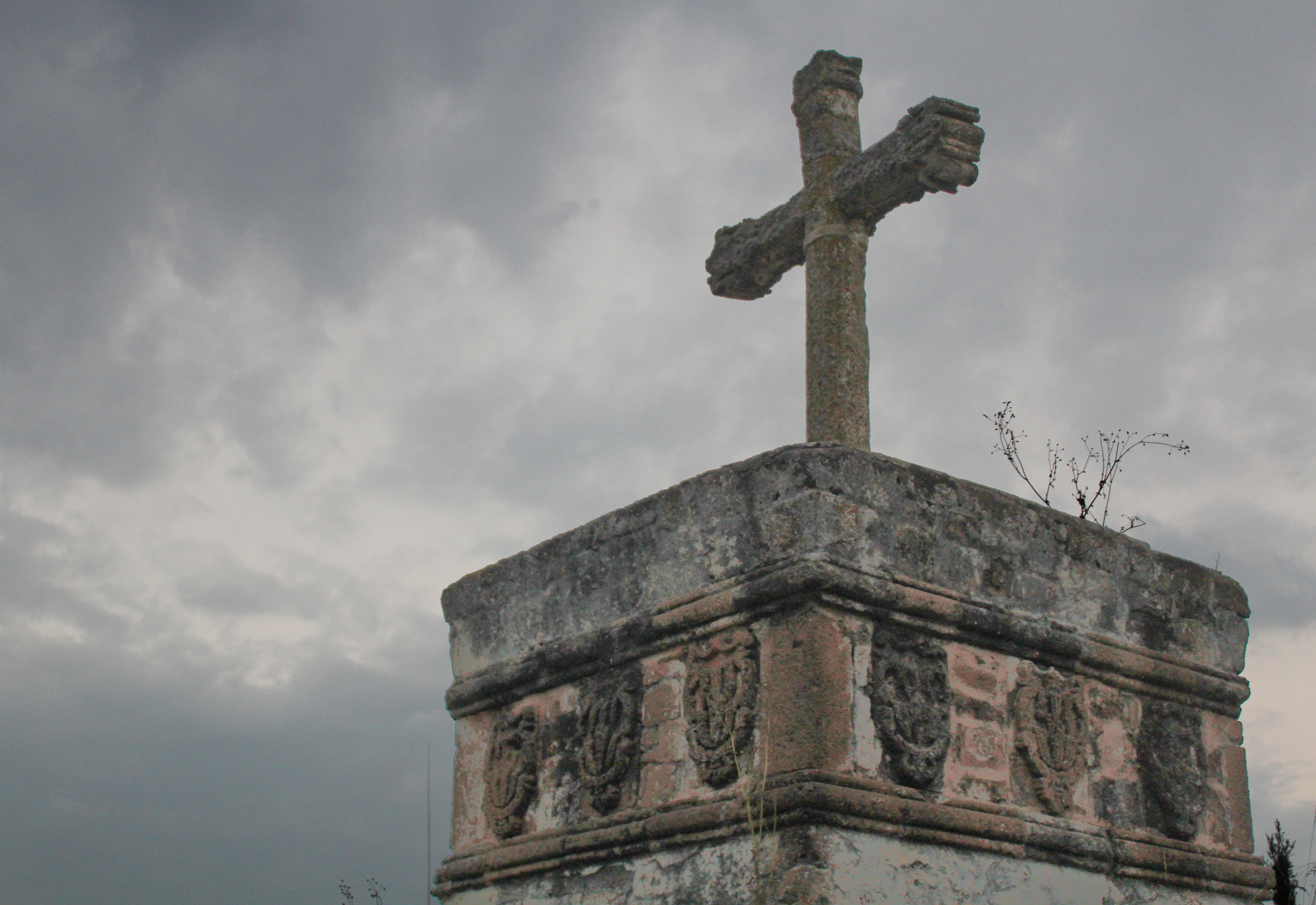 16th century monumental stone cross in Jilotepec, Estado de Mexico, Mexico.